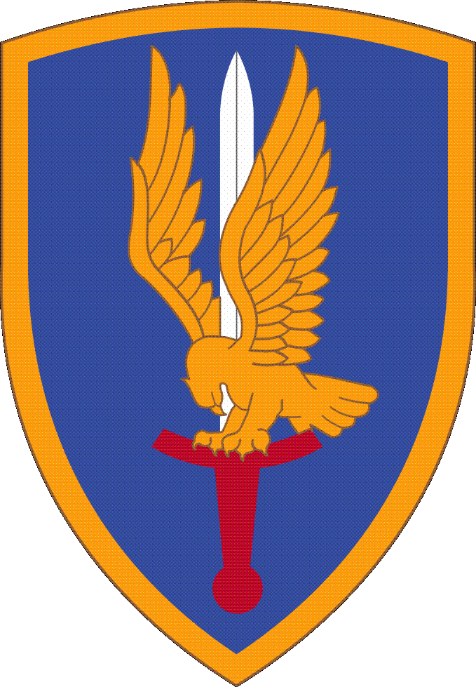 1st Aviation Brigade shoulder sleeve insignia